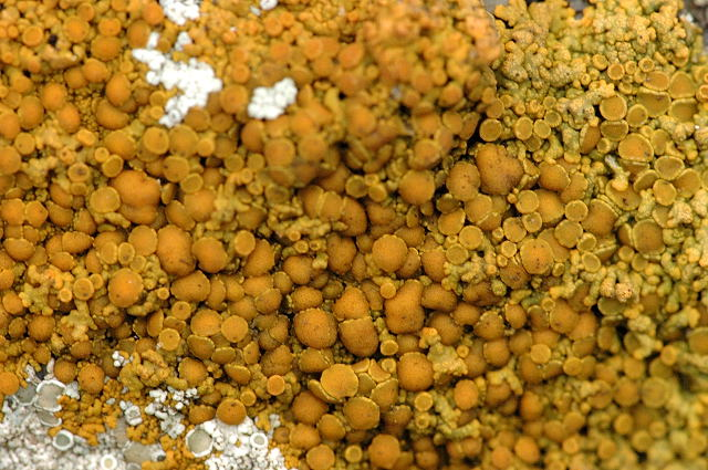 Picture taken in Commanster, Belgian High Ardennes . Species: Caloplaca saxicola